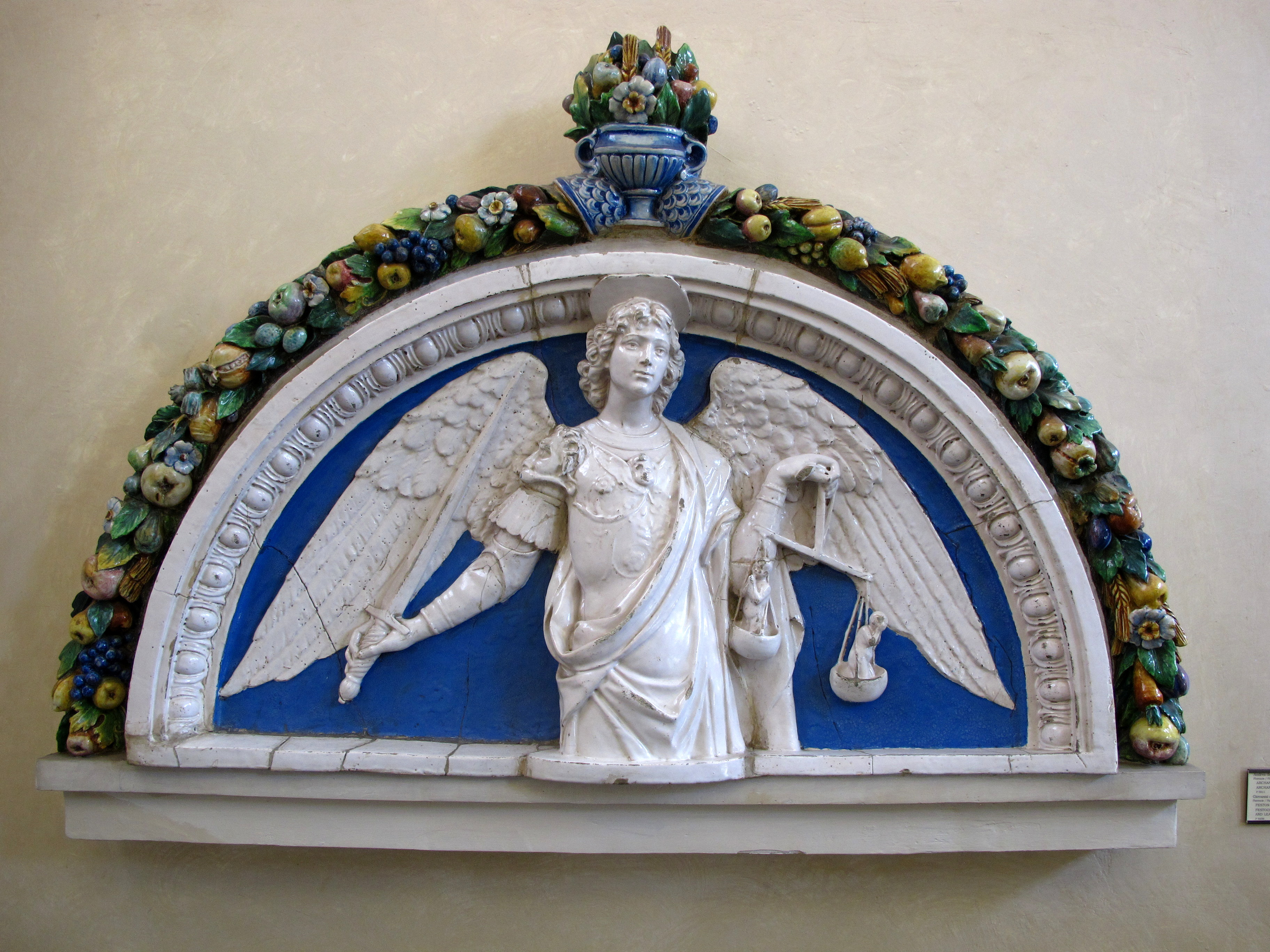 Andrea della Robbia - Achangel Michael